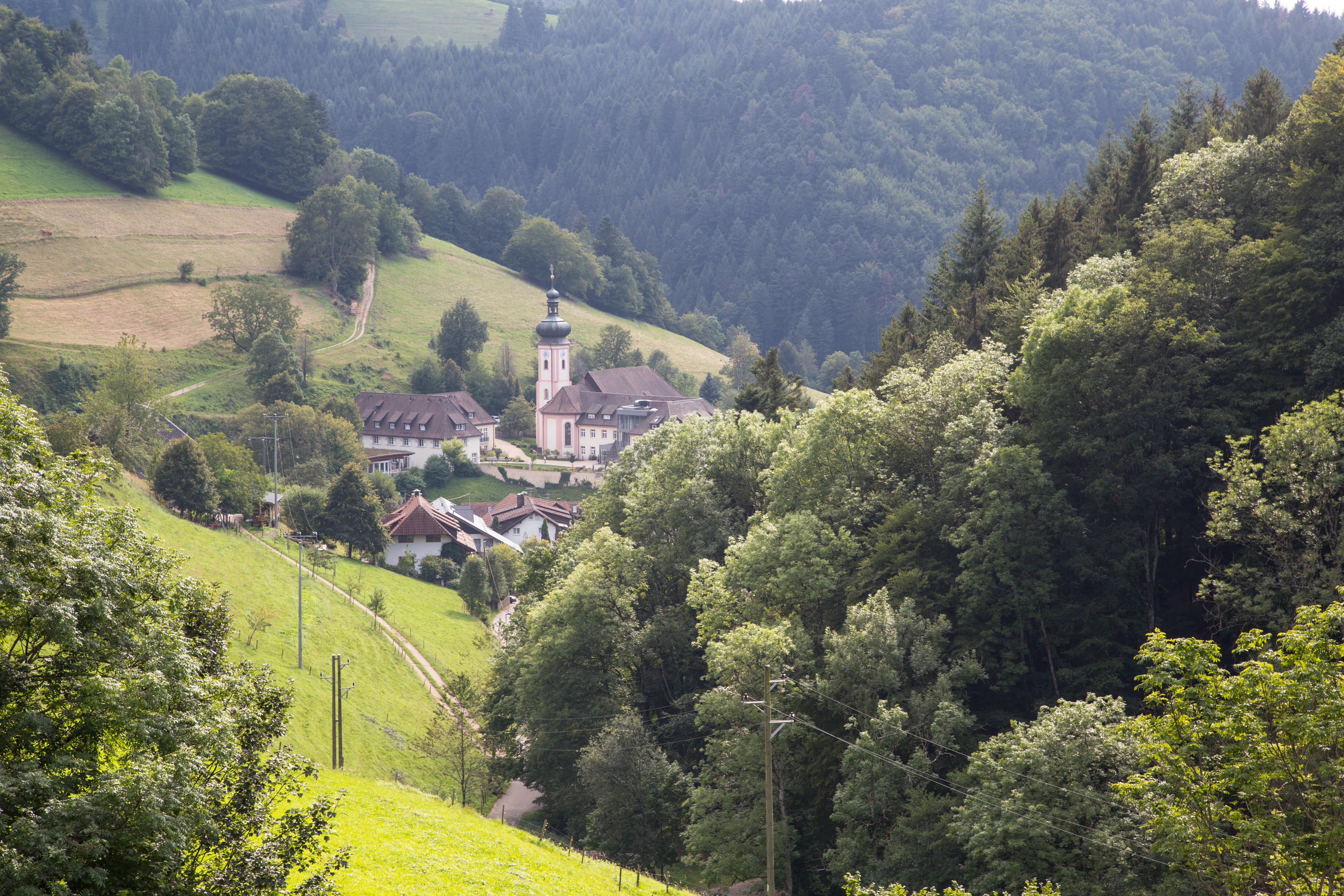 Photograph of the St. Ulrich Priory shot while on a bike tour of the Black Forest